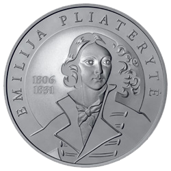 50 litas coin dedicated to the Uprising of 1831 and the 200th Birth Anniversary of its heroine Emilija Pliateryte Silver Ag 925 Quality proof Diameter 38.61 mm Weight 28.28 g The words on the edge of the coin: 1831 SUKILIMAS (1831 UPRISING) Designed by Giedrius Paulauskis Mintage 2,500 pcs Issue 2006 The coin was minted at the UAB Lithuanian Mint.